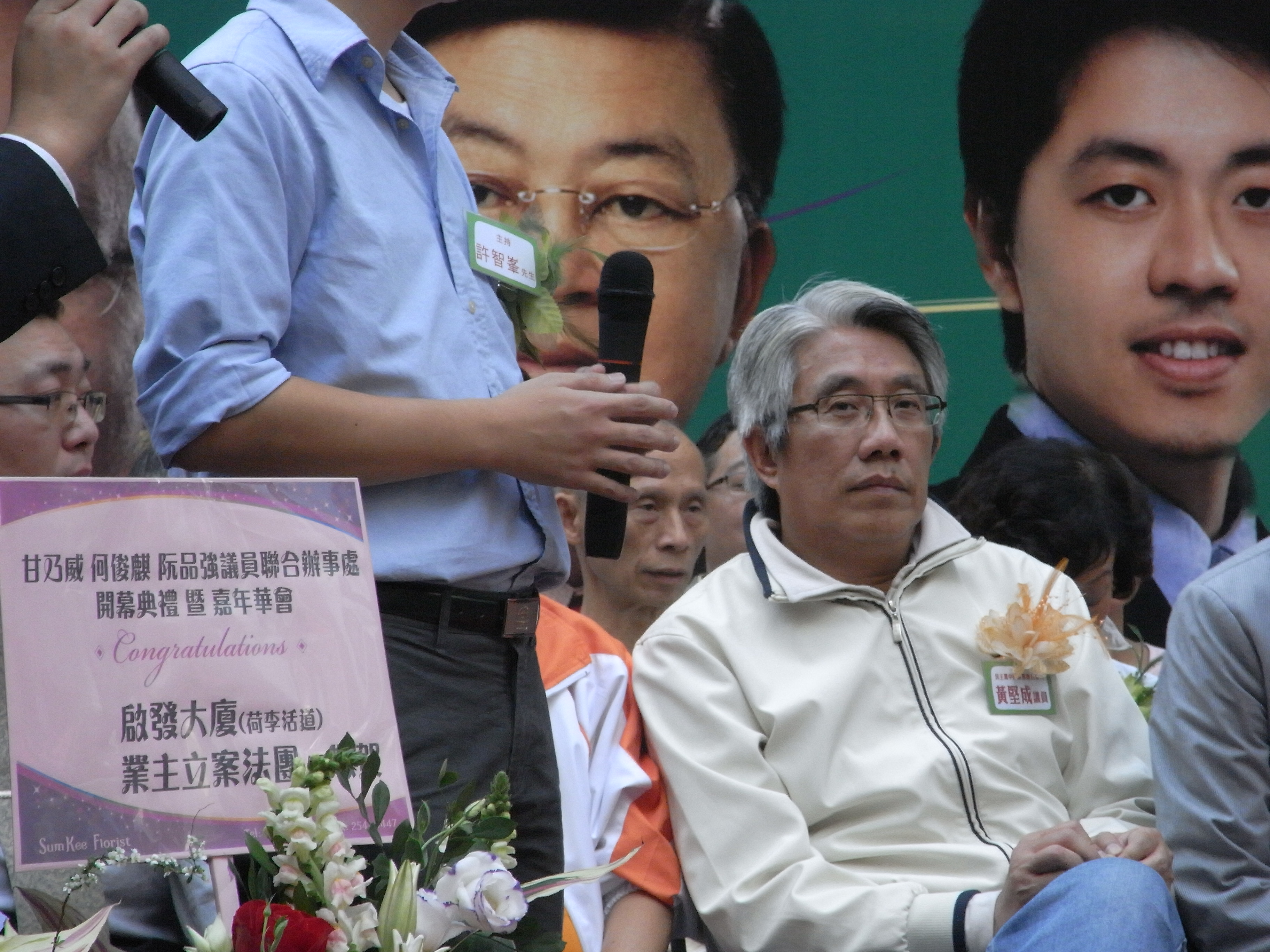 zh:2010年zh:11月 香港民主黨 黃堅成 & 啟發大廈立案法團zh:花牌在 開幕禮台上